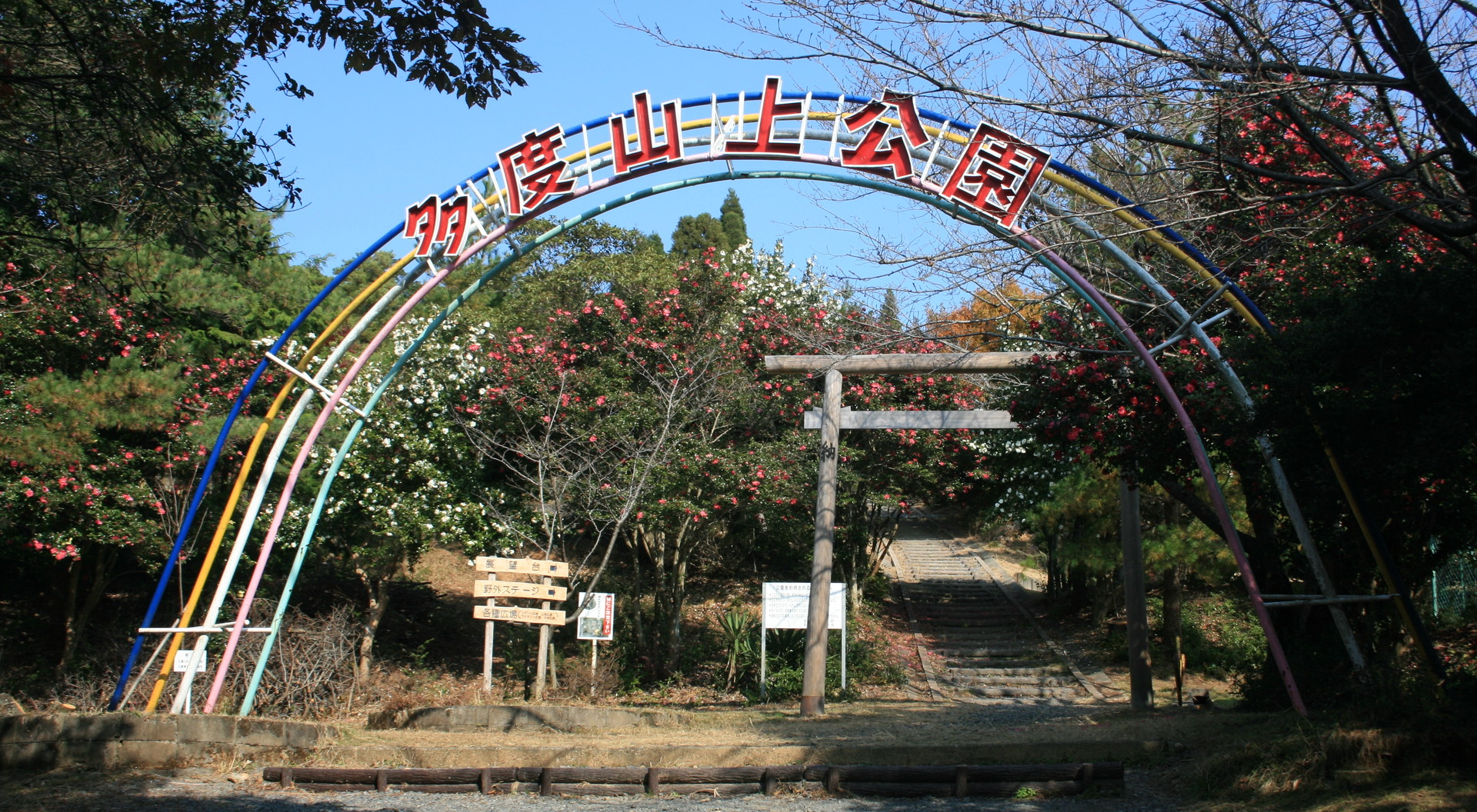 Tado Mountain Park